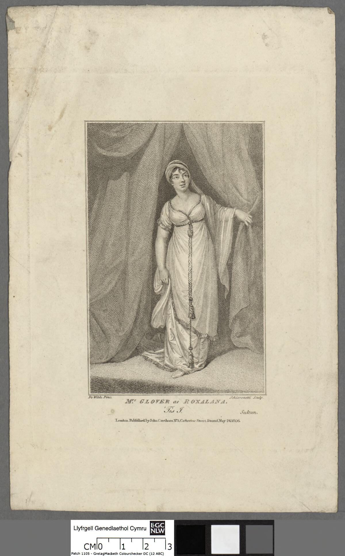 A portrait from the Welsh Portrait Collection at the National Library of Wales. Depicted person: Julia Glover – Irish actress